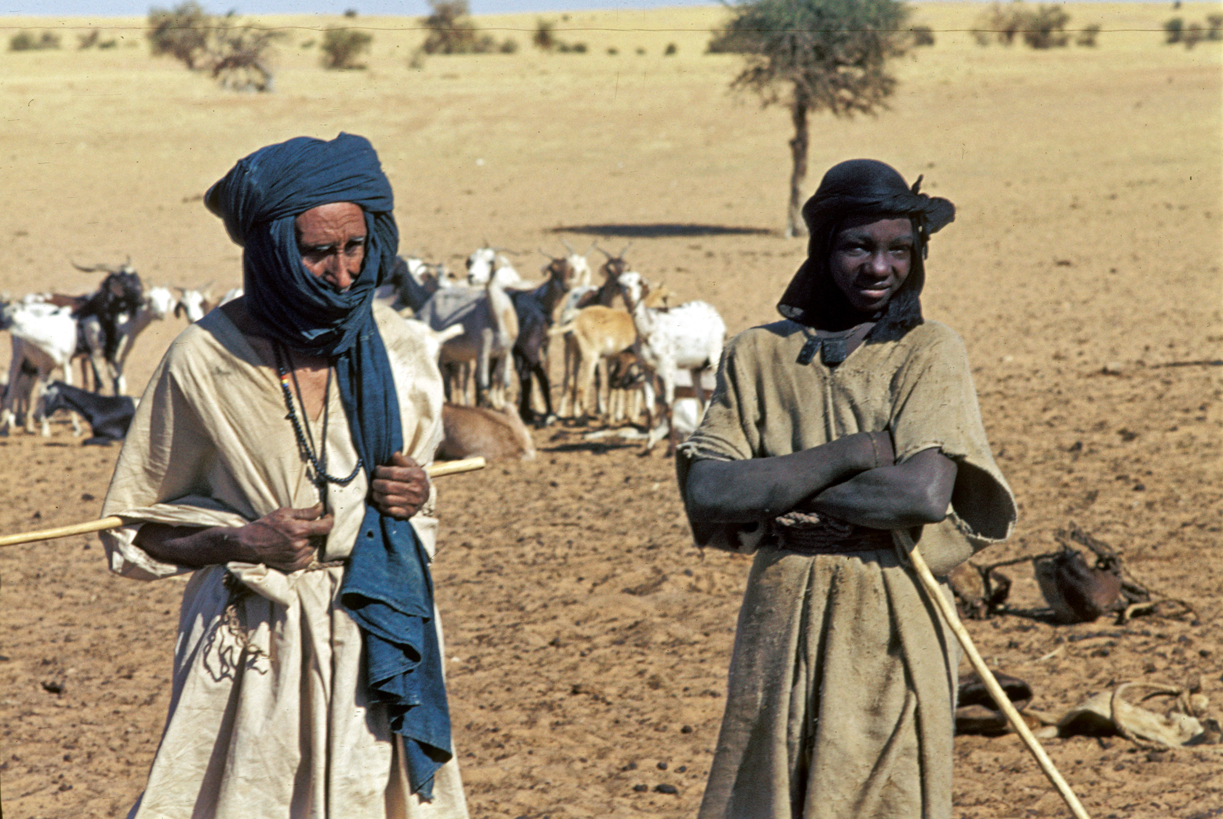 Tuareg nomads in Mali. The black person to the right may be a (descendant of?) slave.